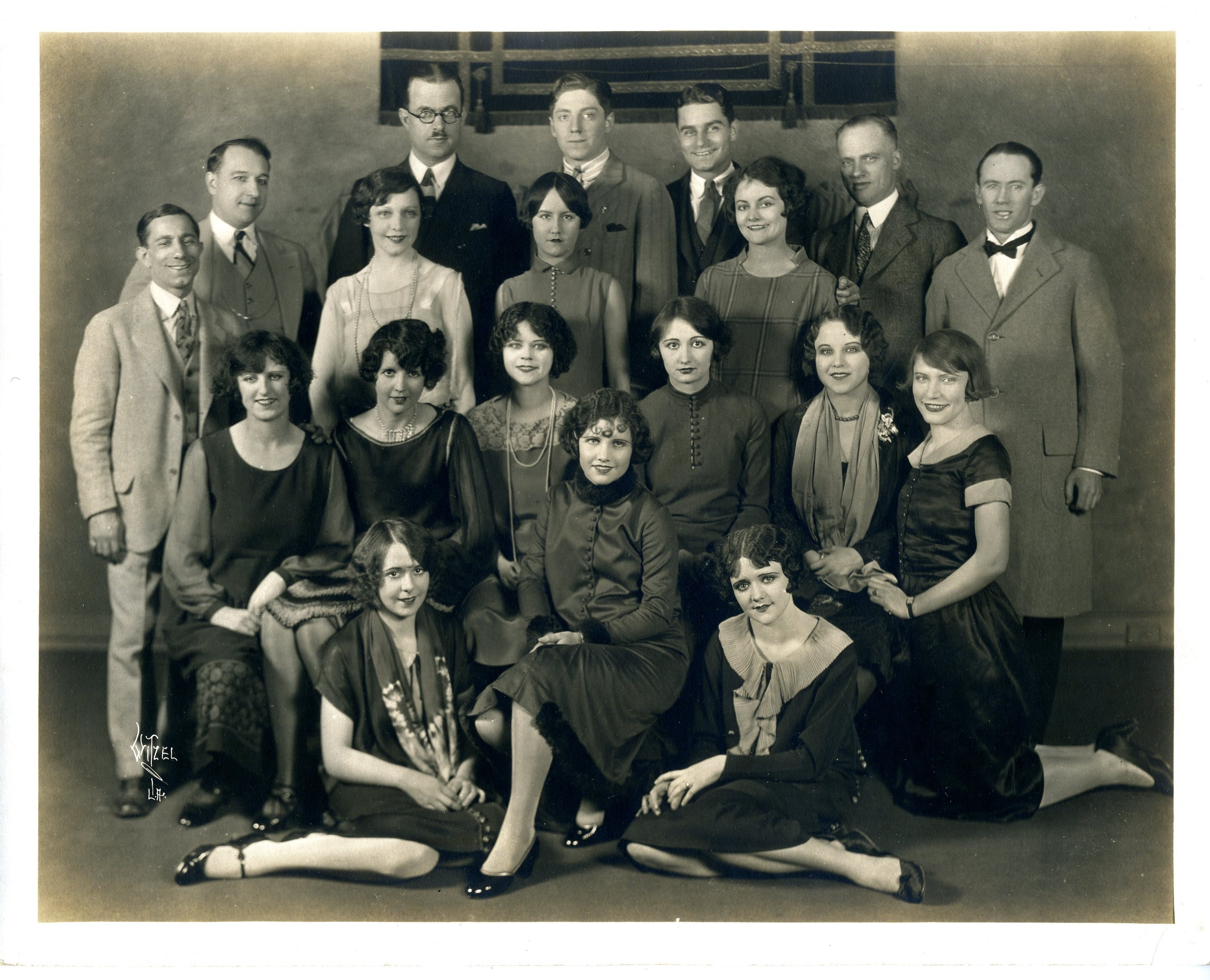 Melody Maid Revue Troupe